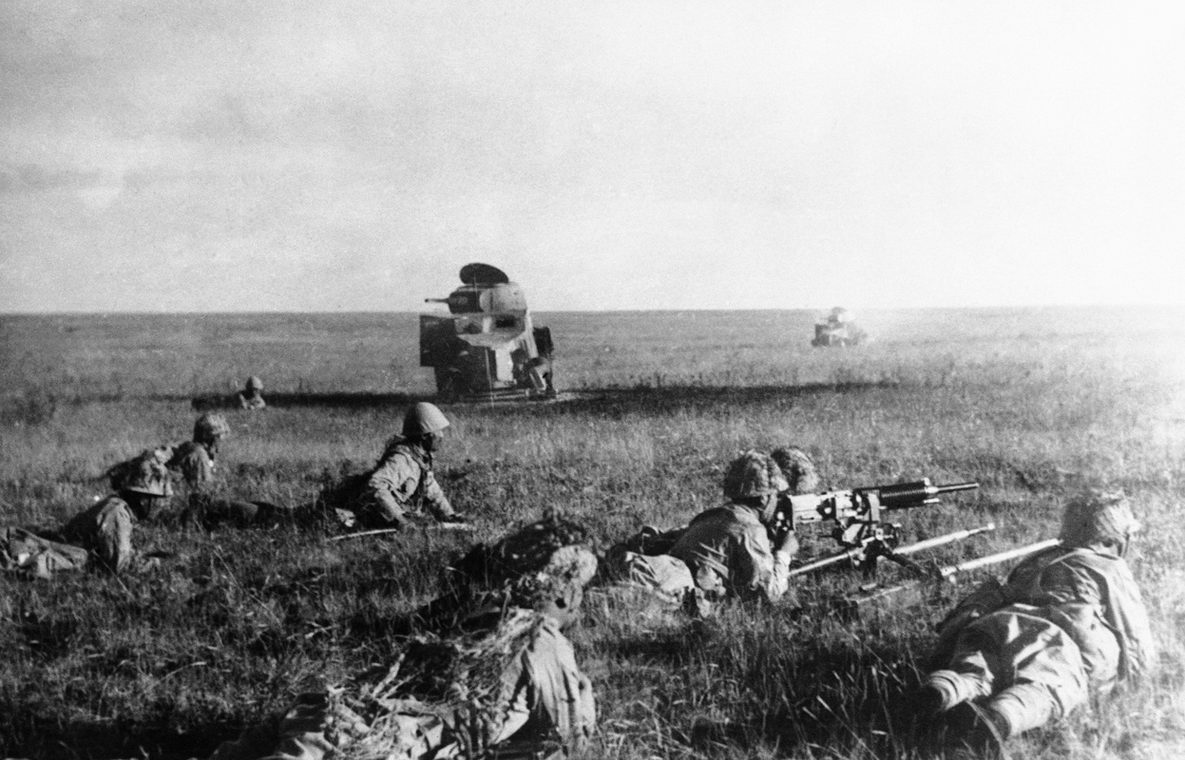 Japanese soldiers creeping in front of wrecked Soviet armored cars